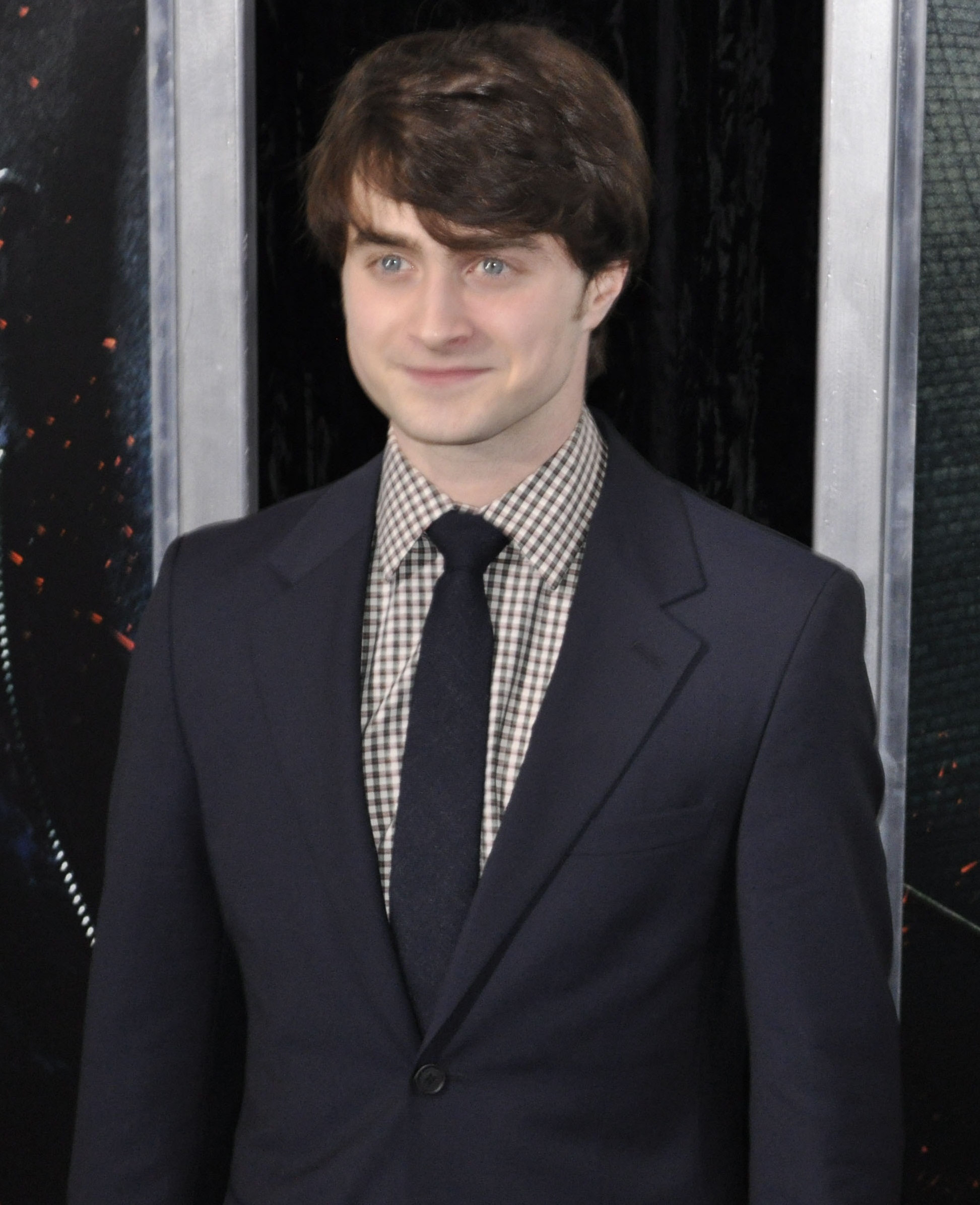 Daniel Radcliffe at the film premiere of Harry Potter and The Deathly Hallows in Alice Tully Center, New York City in November 2010.